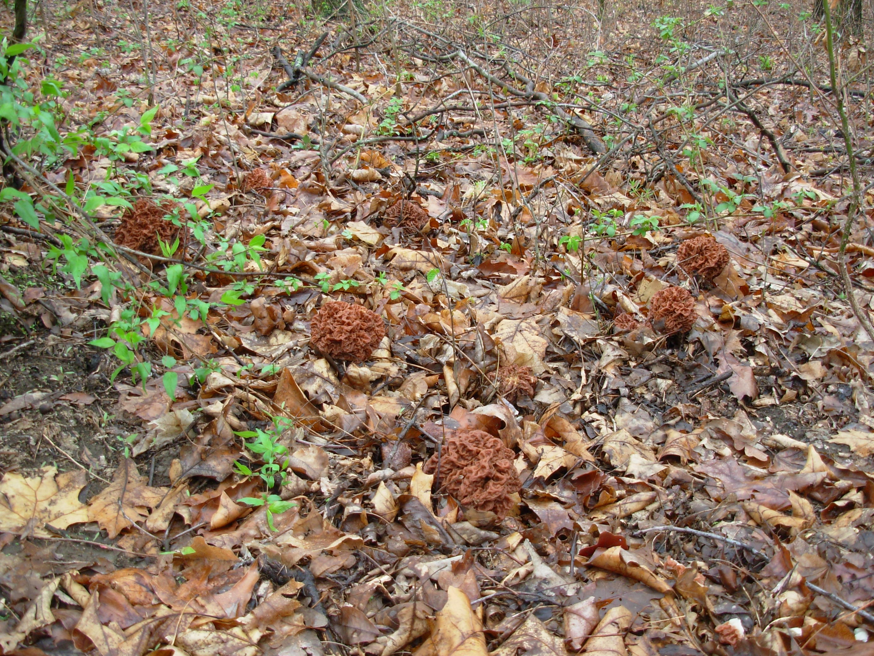 A loose grouping of the "false morel" fungus Gyromitra caroliniana (Bosc) Fr. Photographed in Jersey Co., Illinois, USA.